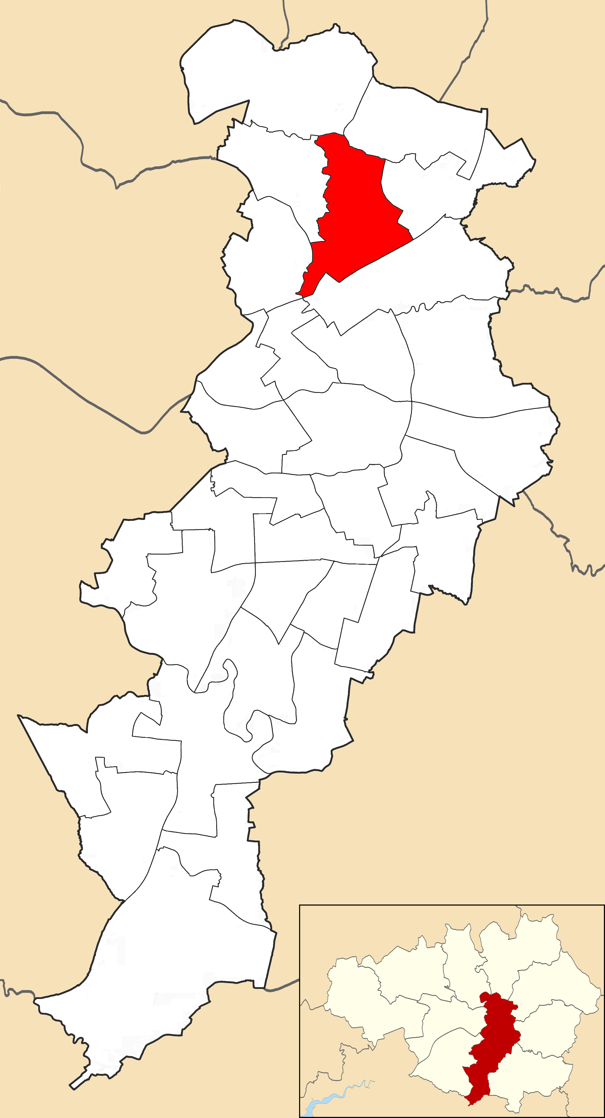 Map showing location of Harpurhey ward within Manchester City Council.